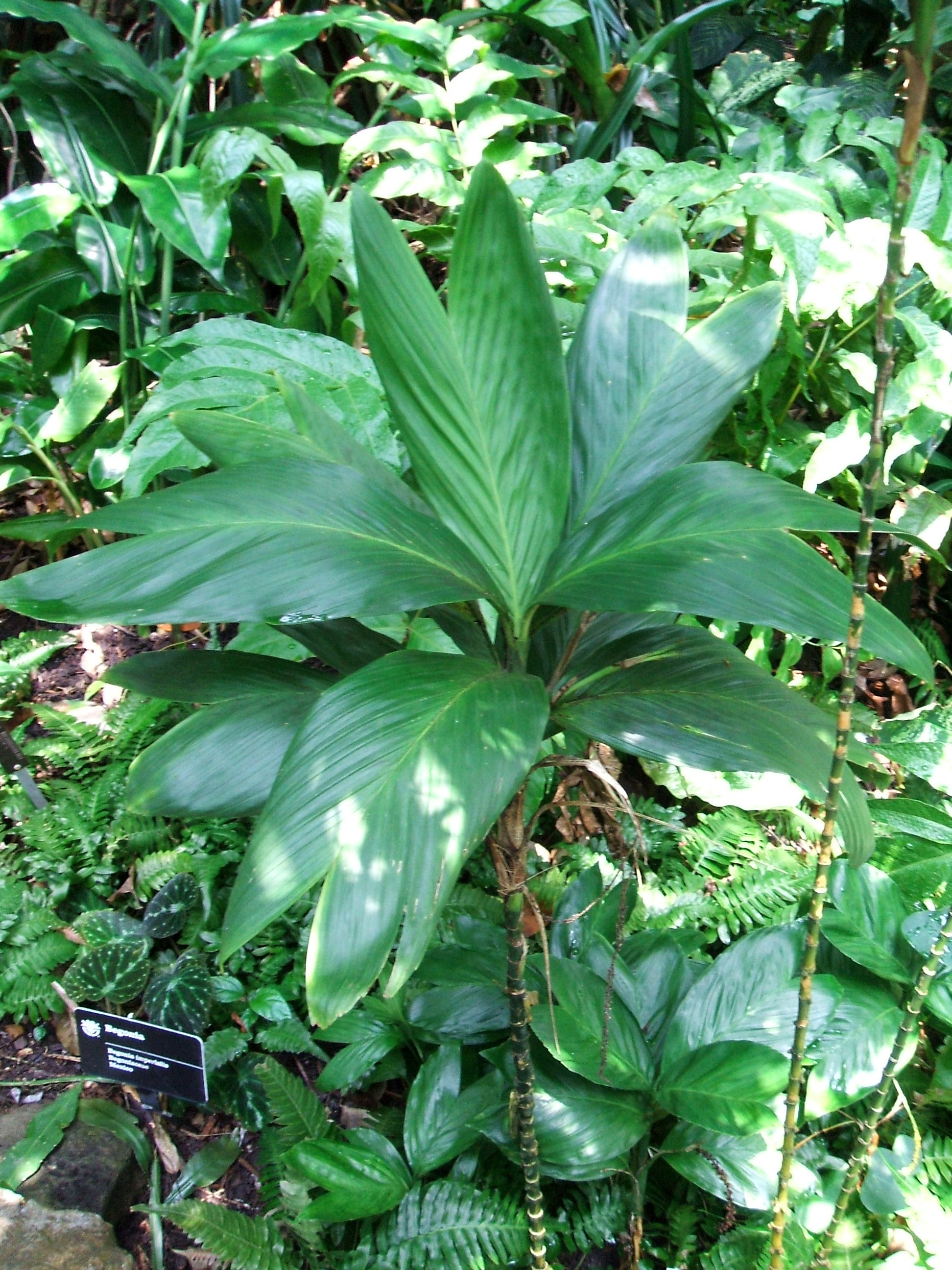 Chamaedorea geonomiformis, at the Missouri Botanical Garden